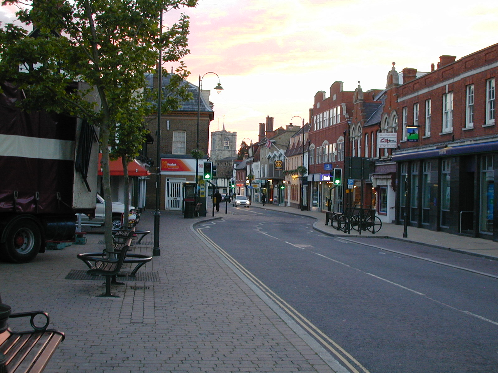 Photograph of Biggleswade town taken in June 2000